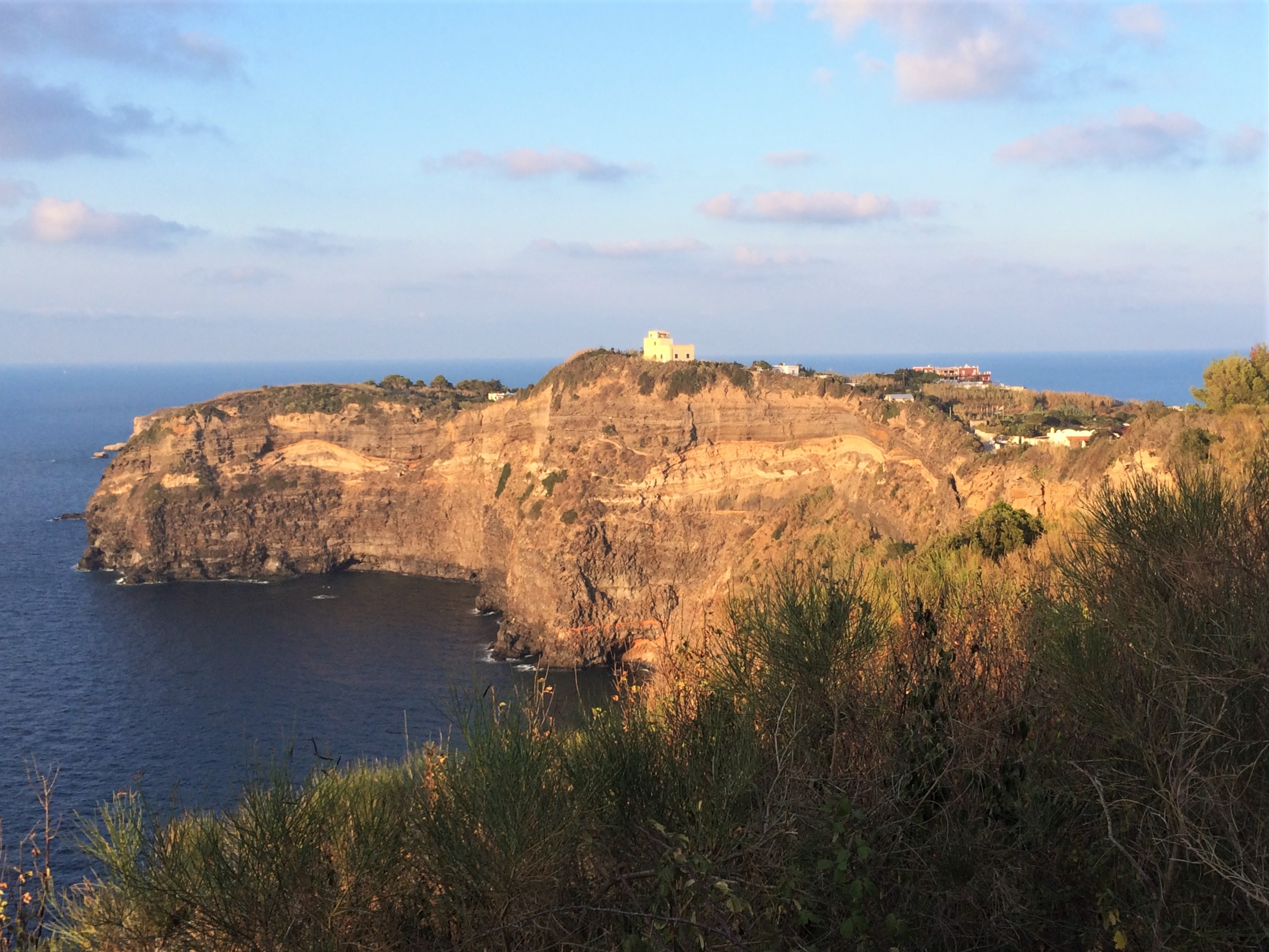 View over the cliffs of western Ventotene and the Bird Observatory from Punta dell'Arco.